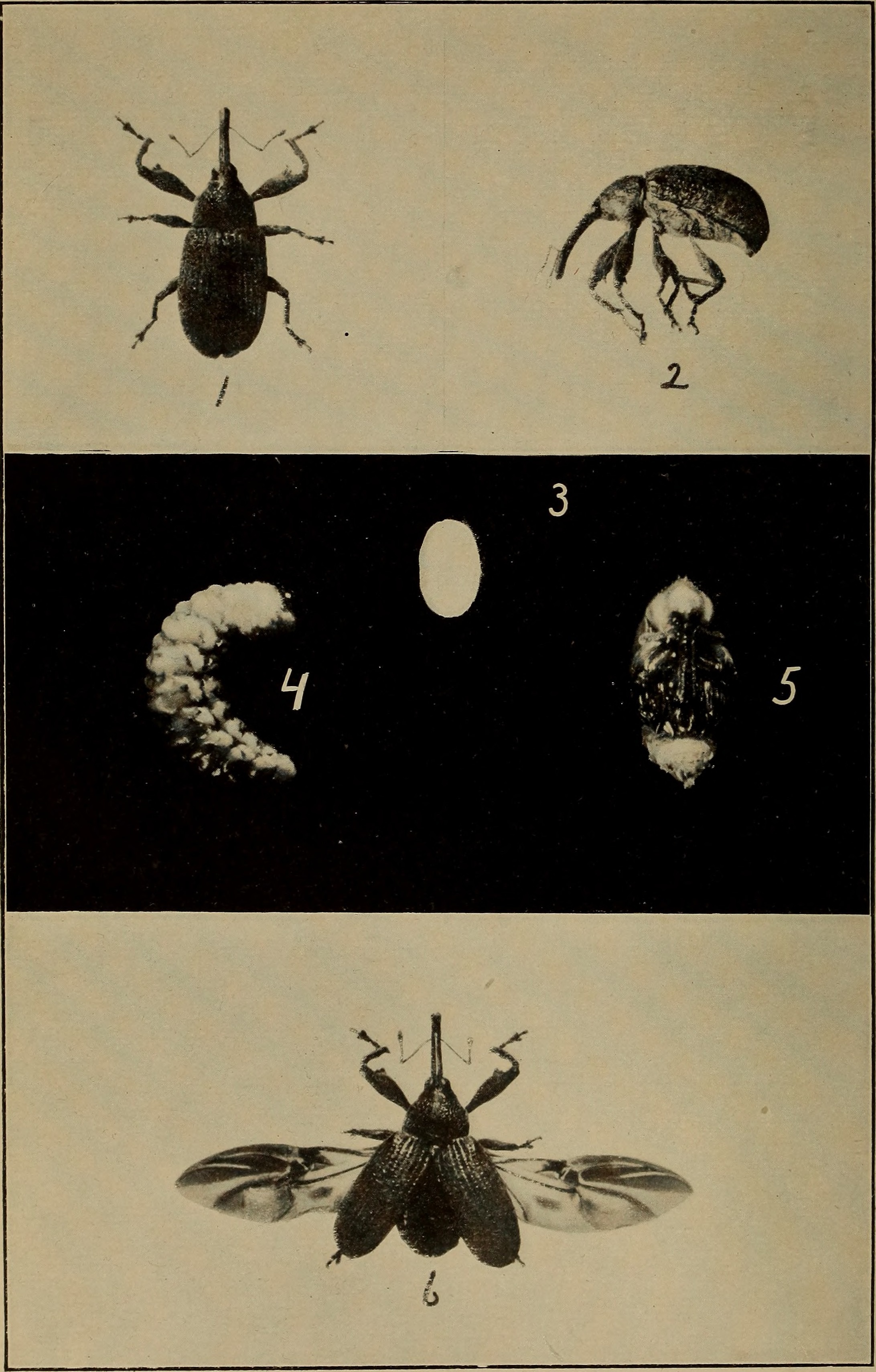 Title: Bulletin Year: 1904 (1900s) Authors: United States. Bureau of Entomology Subjects: Insects; Insect pests; Entomology; Insects; Insect pests; Entomology Publisher: Washington : G. P. O. Text Appearing Before Image: Bui. 5 1, Bureau of Entomology, U. S. Dept. of Agriculture. Plate I. Text Appearing After Image: Stages of Mexican Cotton Boll Weevil. Fig 1 Cotton boll weevil, back view of adult; fig. 2, .side view of adult; fig. 3, egg; fig. 4, side view of larva; fig. 5, ventral view of pupa; lig. 6, adult, with wings spread—all except fig. 3 enlarged to four diameters; fig. 3 enlarged to twelve diameters (original).